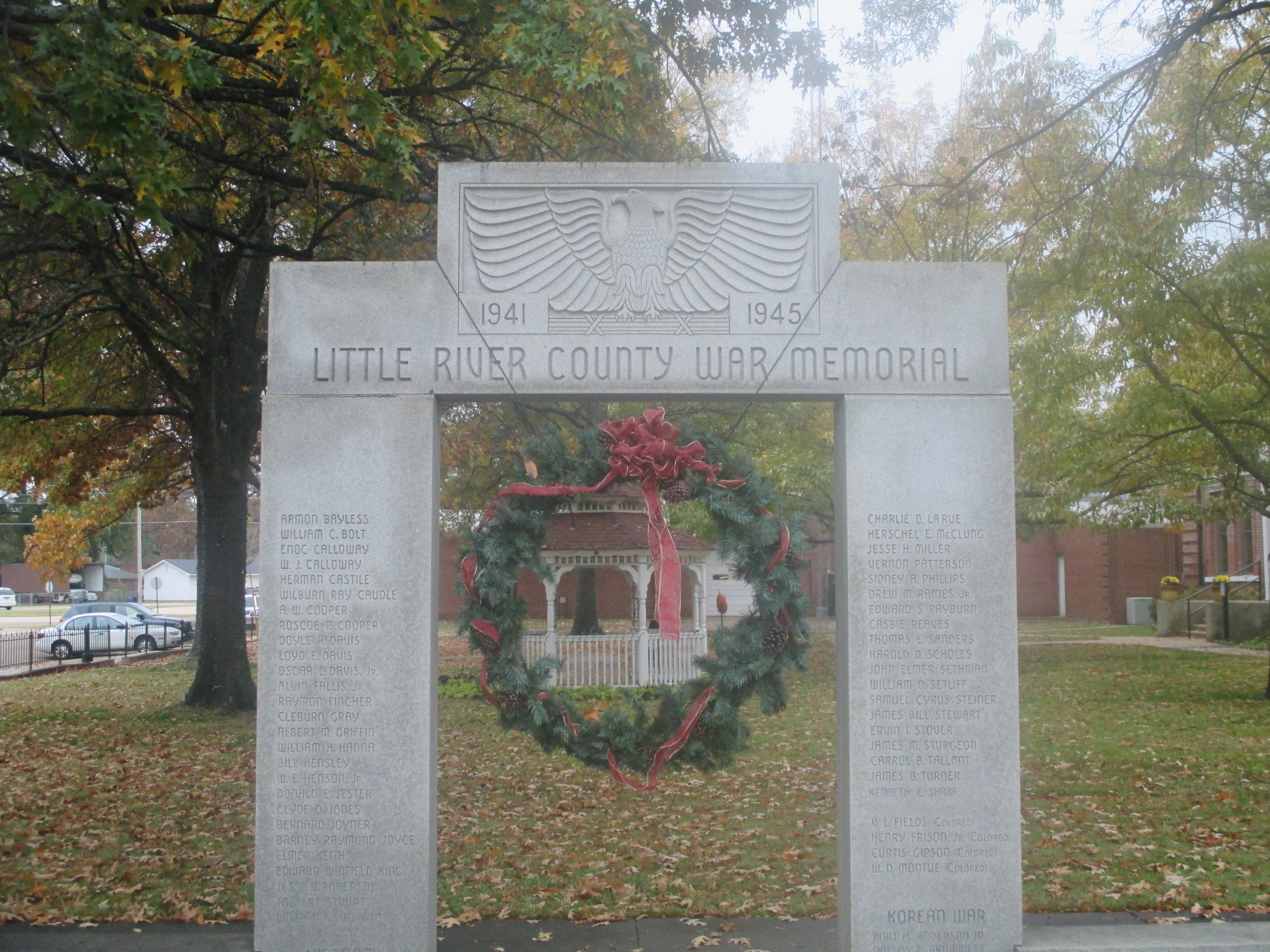 I took photo with Canon camera of Little River County War Memorial at the courthouse in Ashdown, AR.